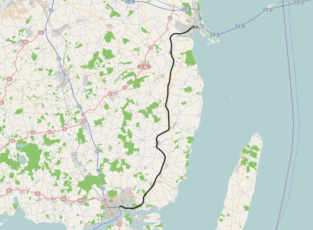 Railway line Svendborg - Nyborg